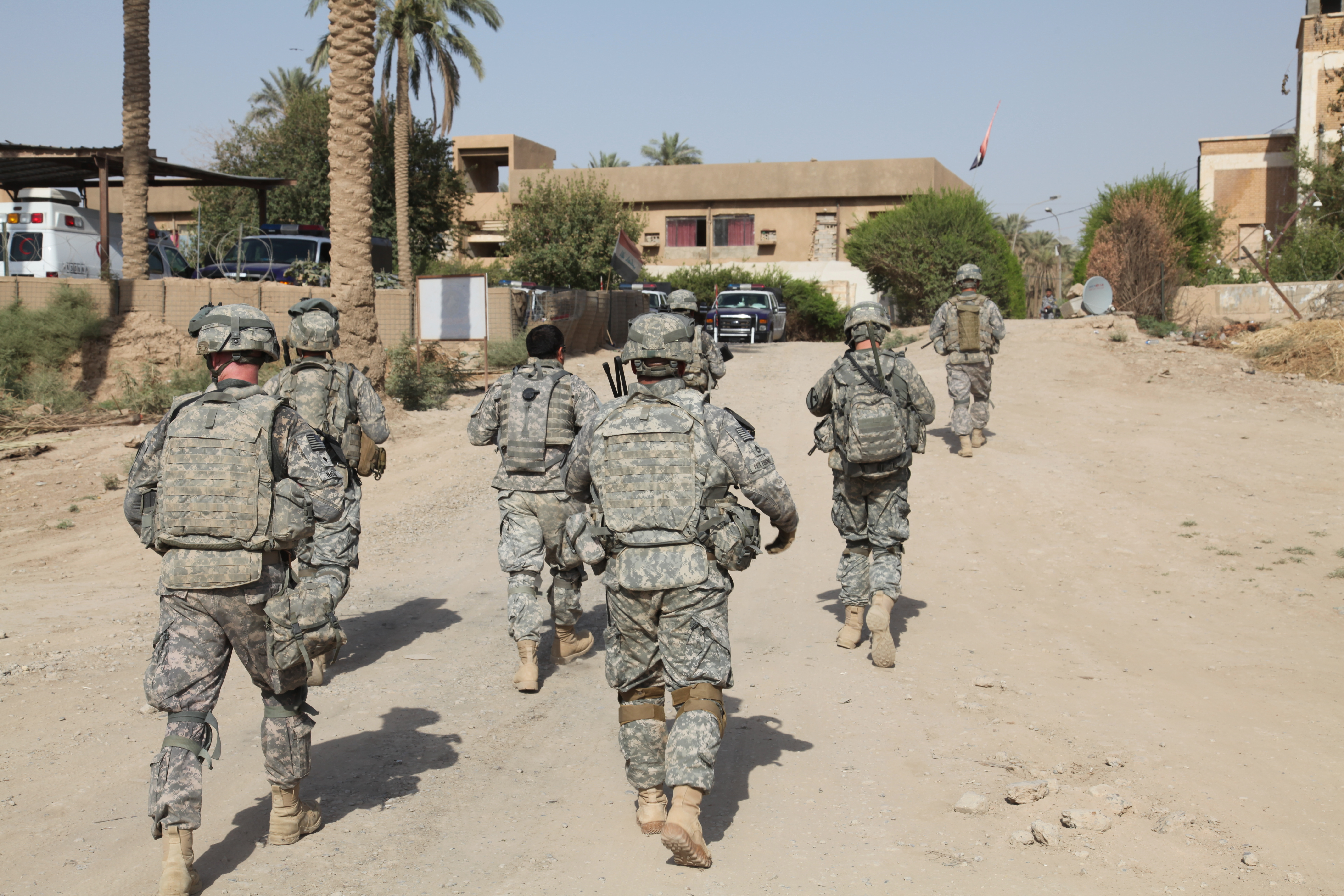 U.S. Soldiers head to an Iraqi federal police station at Baqubah, Diyala province, Iraq, July 24, 2011. The Soldiers, with the 1st Squadron, 8th Cavalry Regiment, 2nd Brigade, 1st Cavalry Division, are going to the police station to discuss some possible hostile disturbances that have occurred at a nearby town.